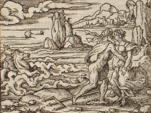 Caenis and Poseidon. Engraving by Virgil Solis for Ovid's Metamorphoses Book XII, 189-209.